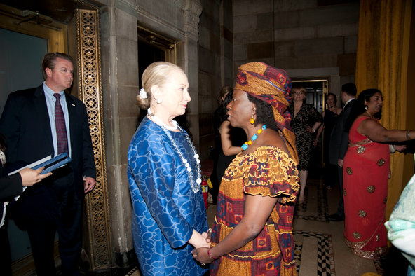 Gala Dinner Cipriani New York